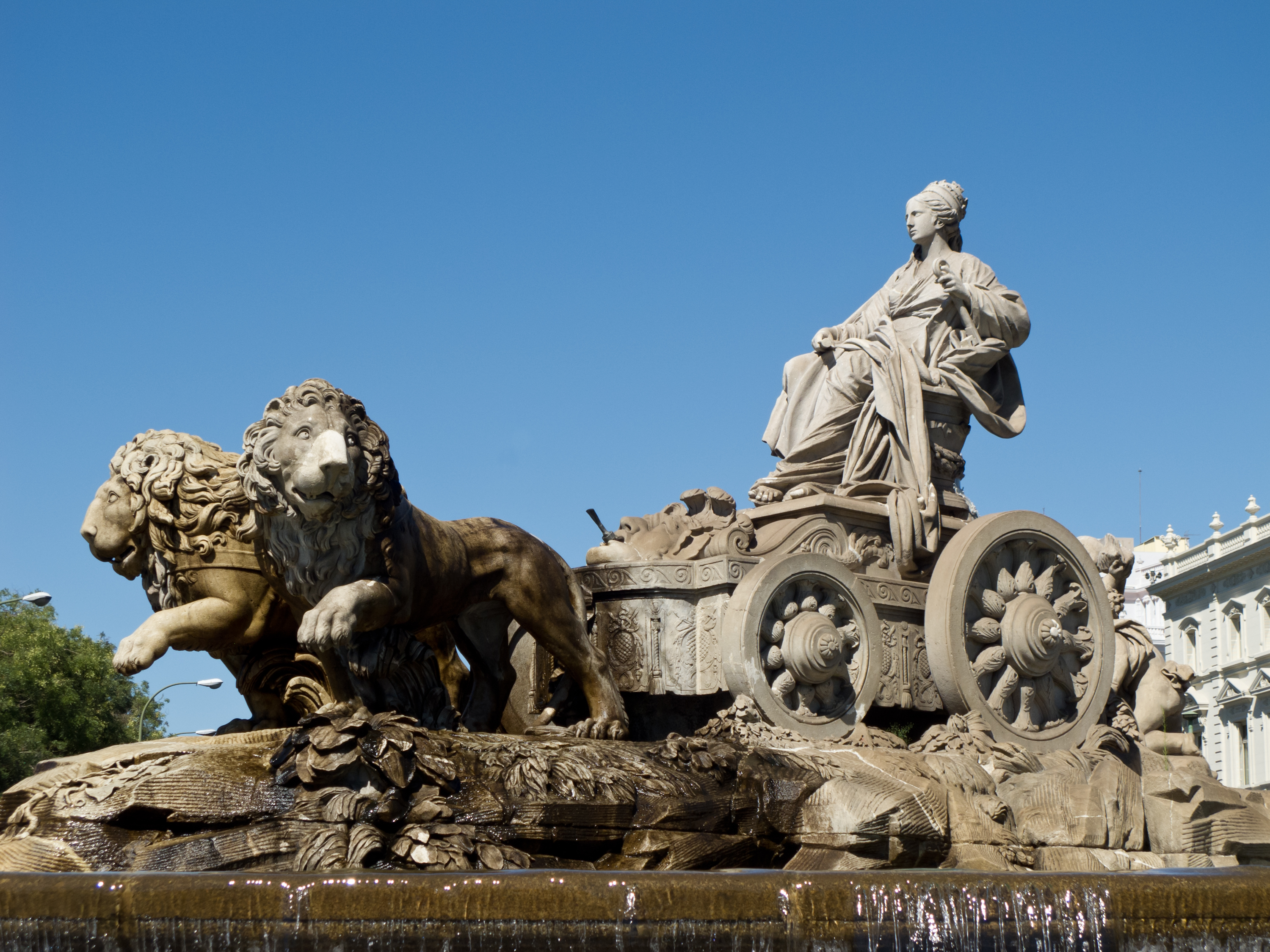 Fountain of Cybele, Madrid, Spain.